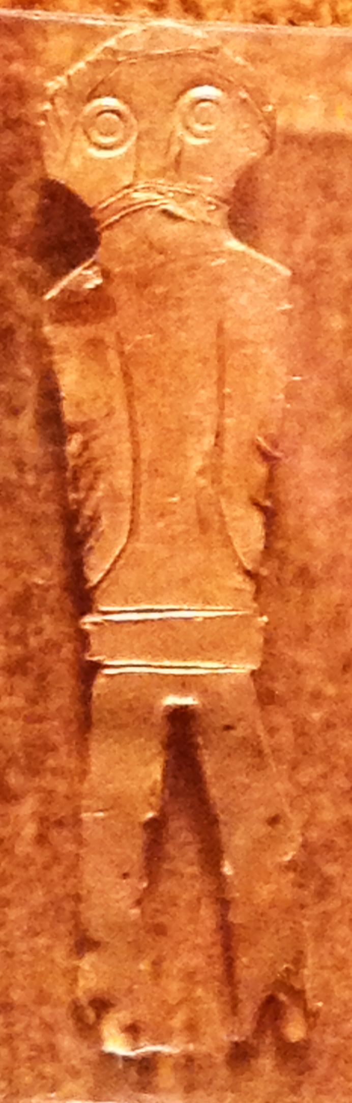 A Goldgubbe from the Iron age found in Uppåkra, Scania, Sweden. Located at The museum of history in Lund, Sweden.